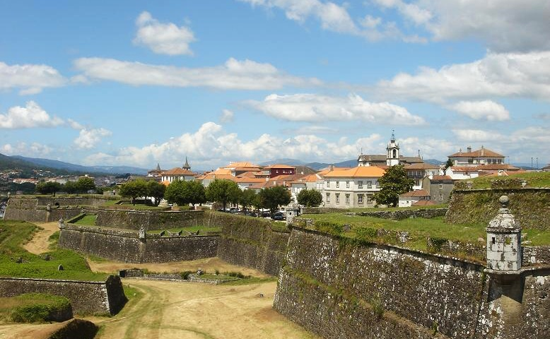 Portuguese Fort City of Valença.